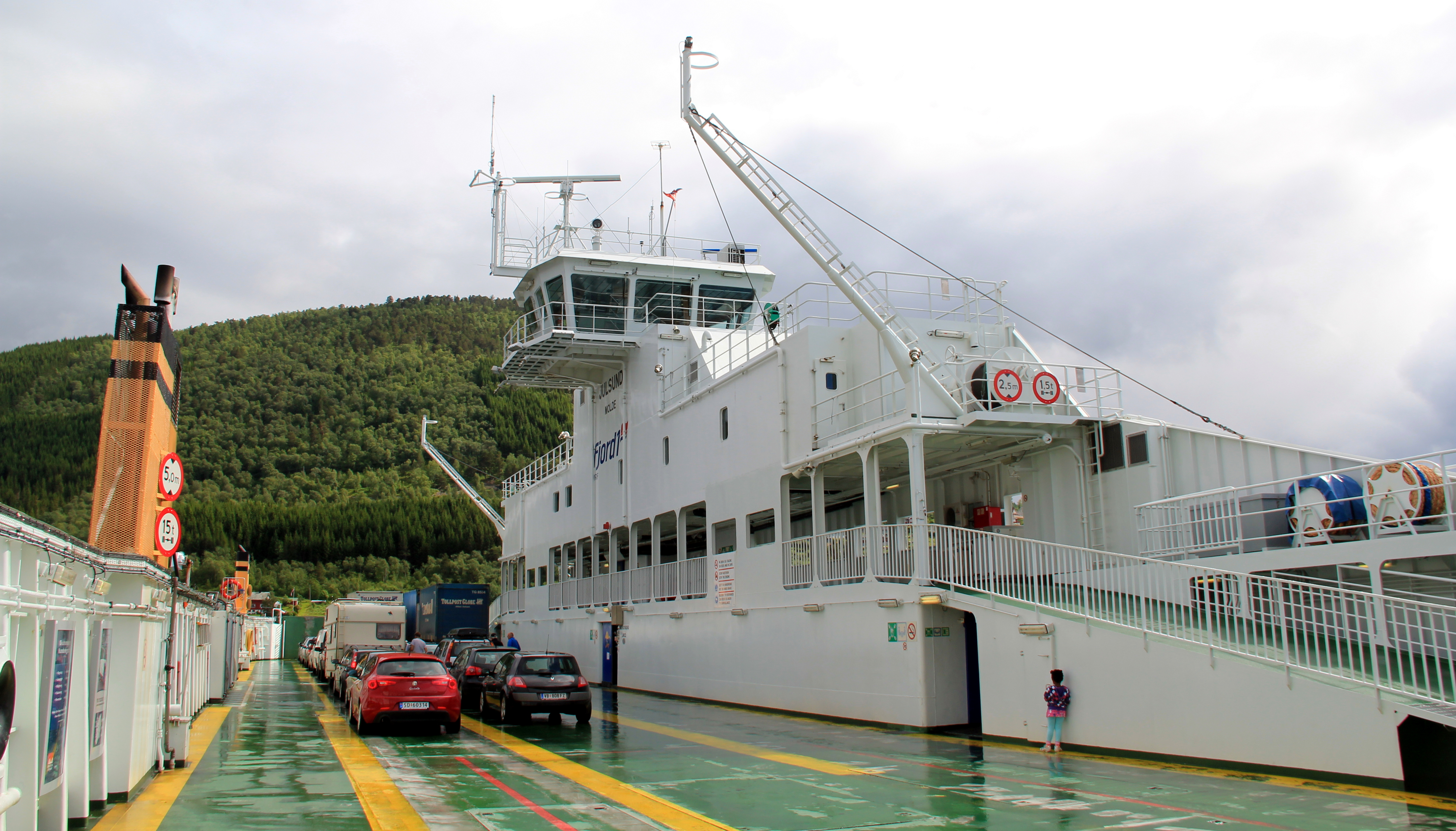 Ferry MF Julsund